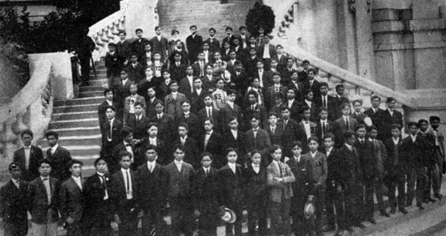 100 Filipino students (pensionados) (plus one drawn in individual) standing on steps at the St. Louis Exposition.